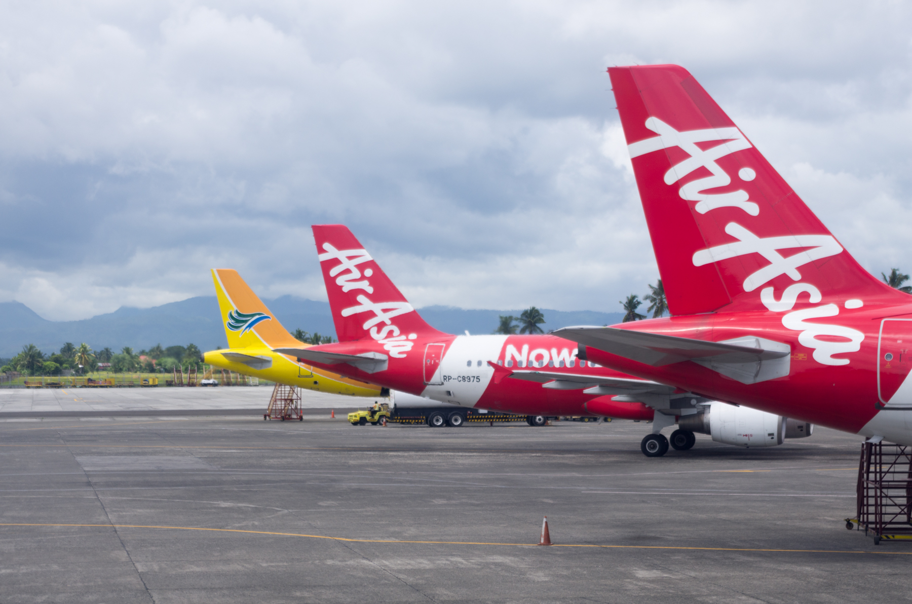 2 Air Asia A320s and a Cebu pacific A320 parked on the ramp at Kalibo Airport in the Philippines. Great shot of the Tails.